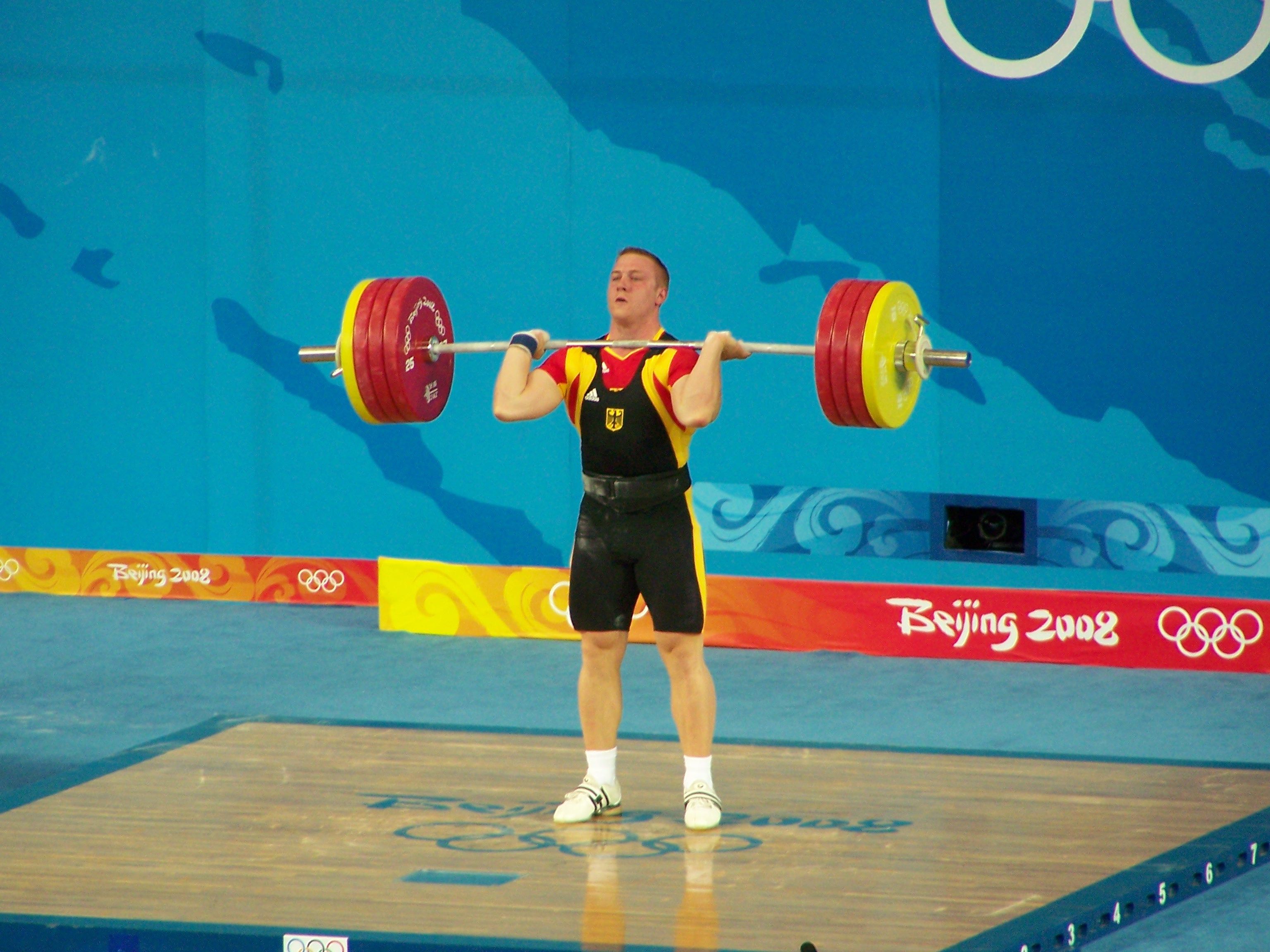 Weightlifting Athlet Germany Jürgen Spieß